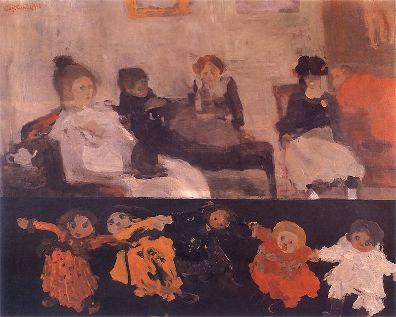 Dolls